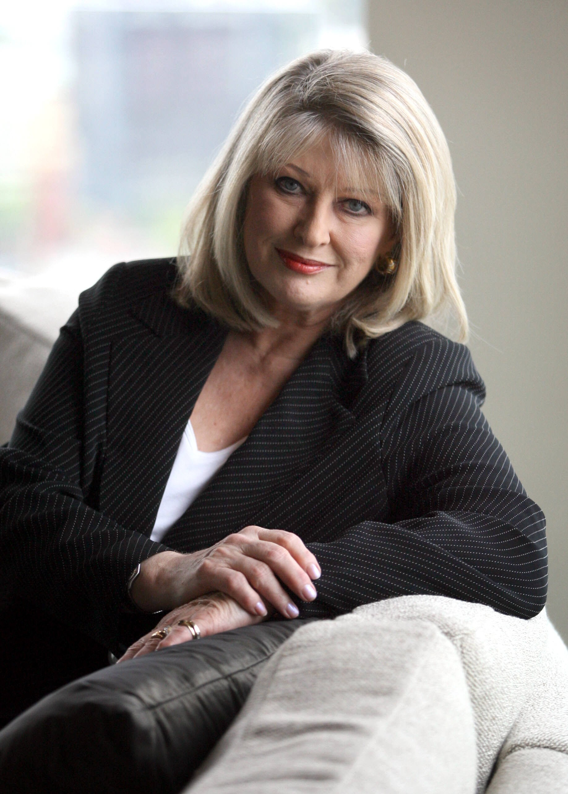 Helen Coonan, Liberal member of the Australian Senate since July 1996, representing New South Wales.